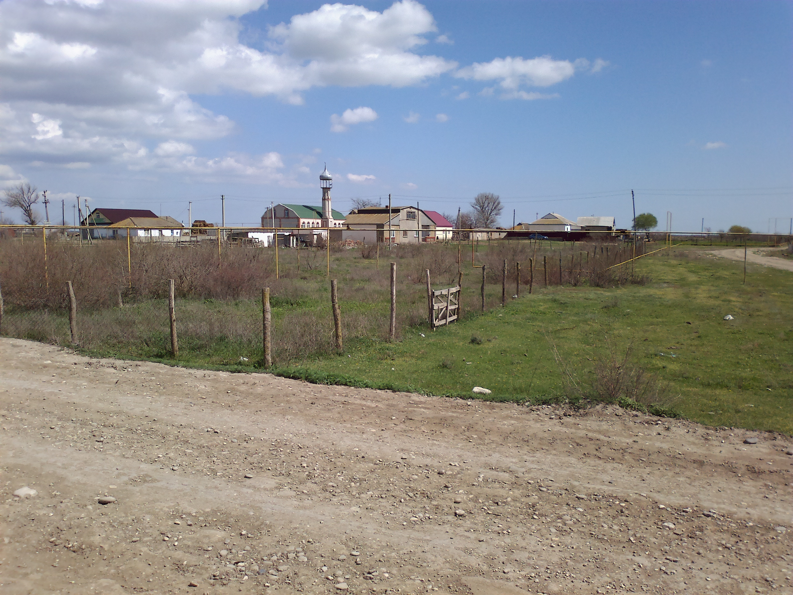 Шава (Бабаюртовский район)